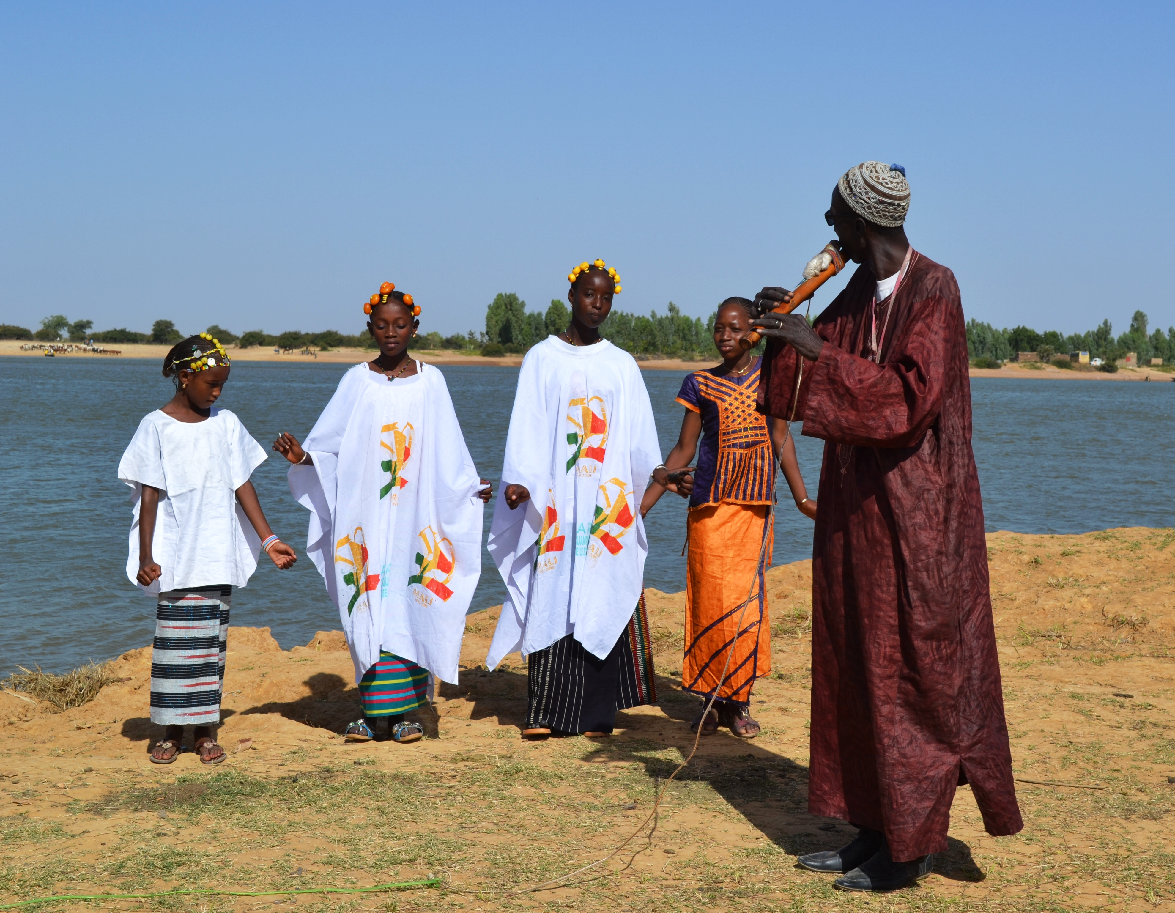 Foulany danse in traditional flute sound in Mali Bamanankan: Fulaw donkɛtɔ File mankan na Mali la This is an image from Mali